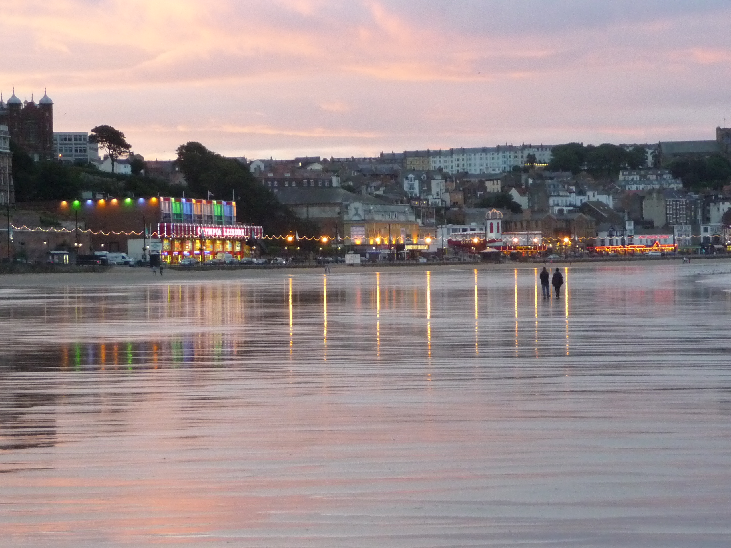 Scarborough in North Yorkshire, United Kingdom